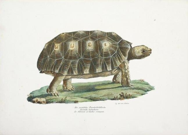 "Naturgeschichte und Abbildungen Der Reptilien", Chelonoidis denticulatus, syn. Testudo tabulata